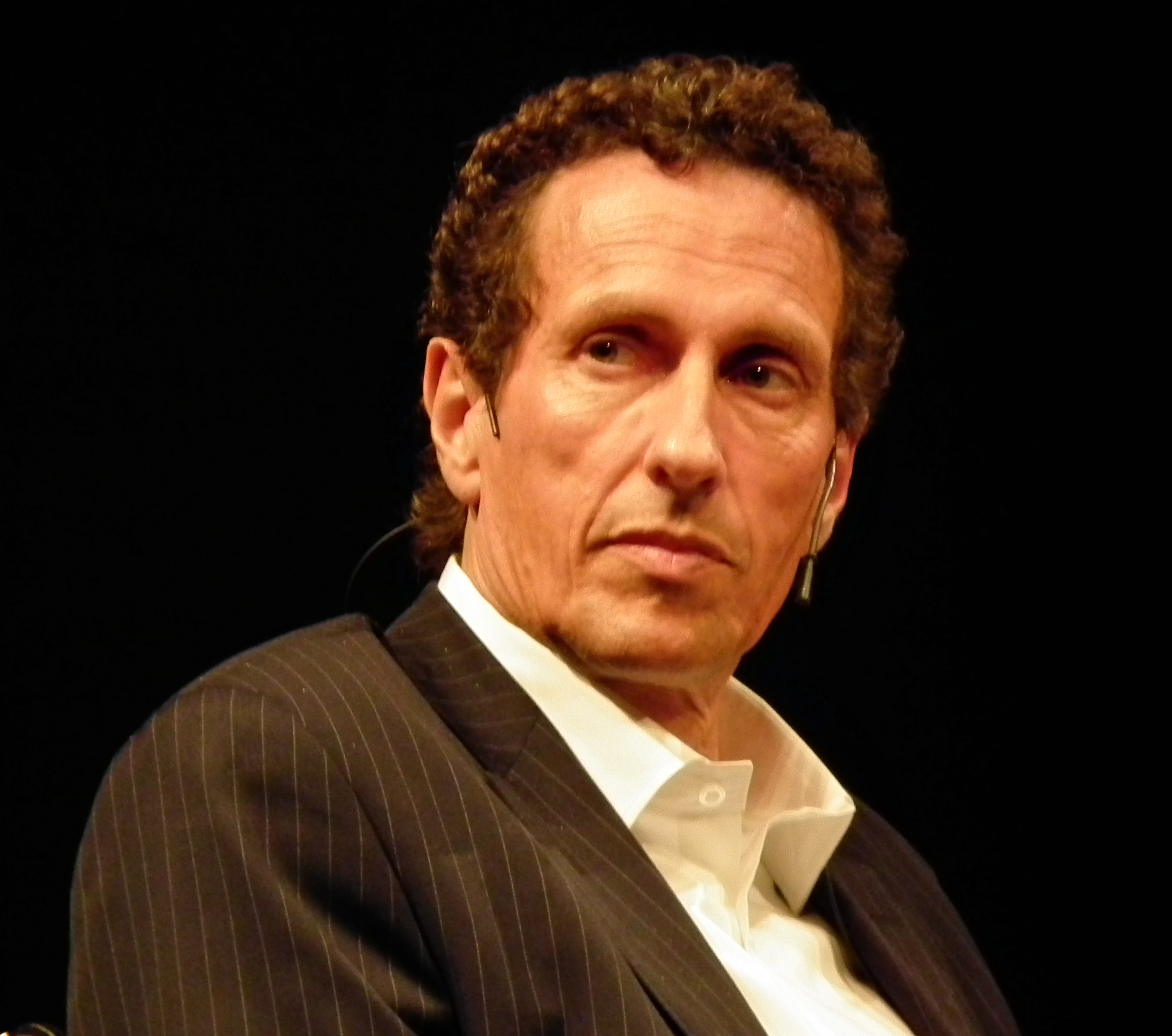 Julian Nida-Ruemelin giving a talk during Lit.Cologne 2012